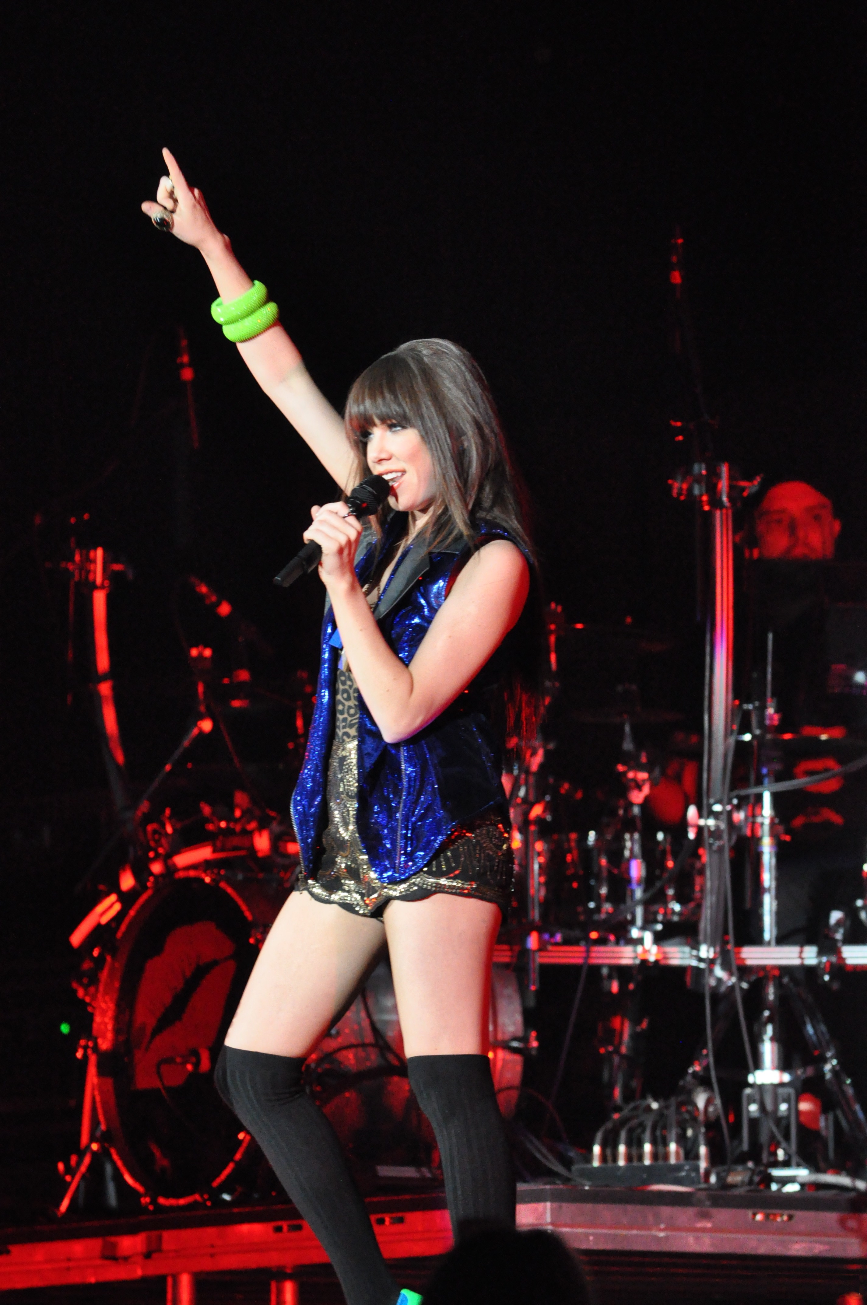 Carly Rae Jepson-DSC_0044-10.20.12